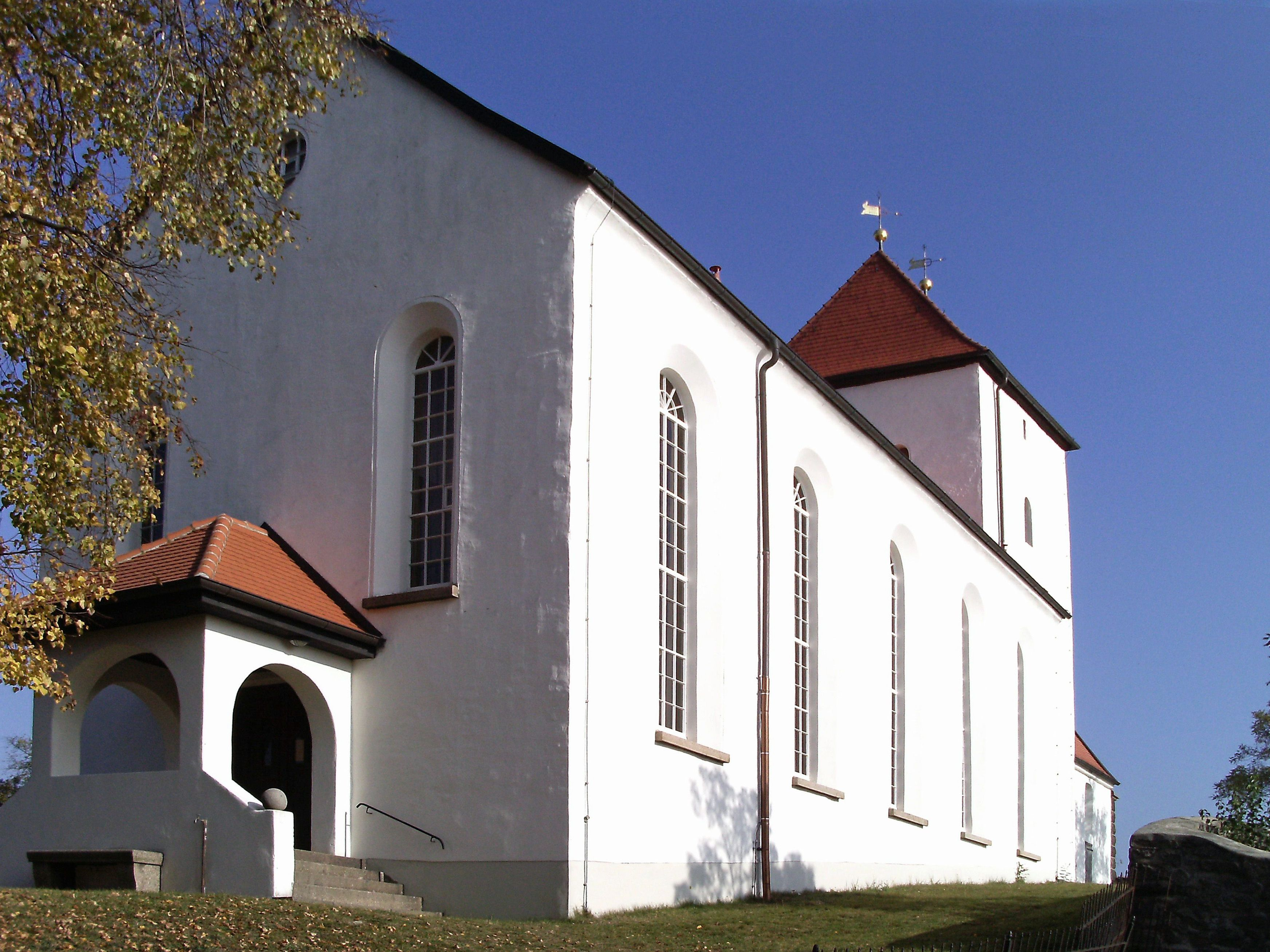 Church on the Hill in Beucha (Brandis, Leipzig district, Saxony)